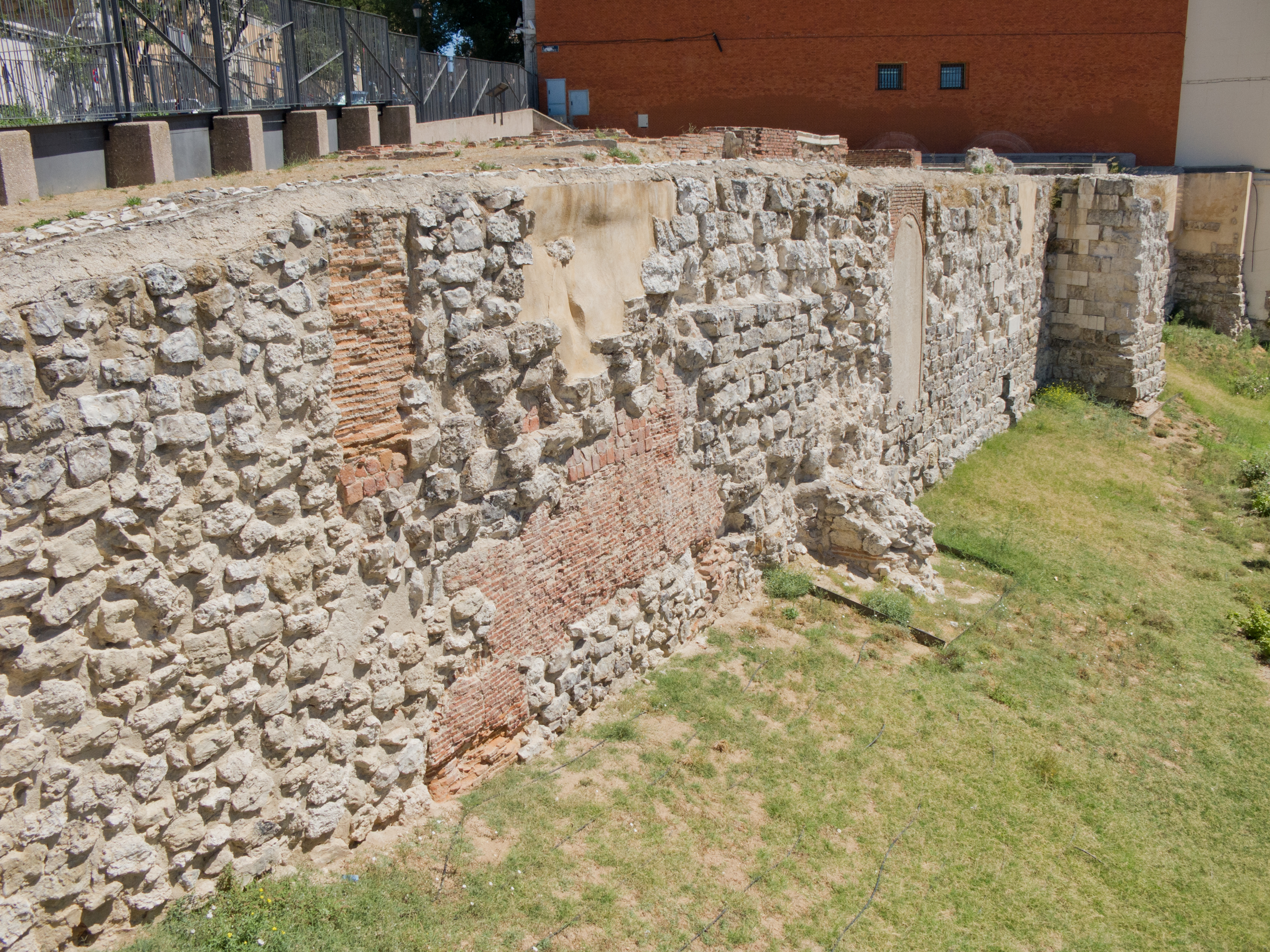 Muslim wall of Madrid, Spain.